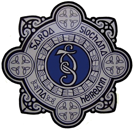 Badge of An Garda Síochána, the national police service of the Republic of Ireland.